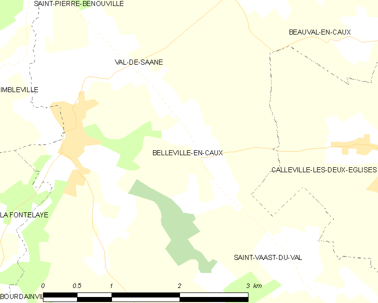 Map of French municipality Belleville-en-Caux